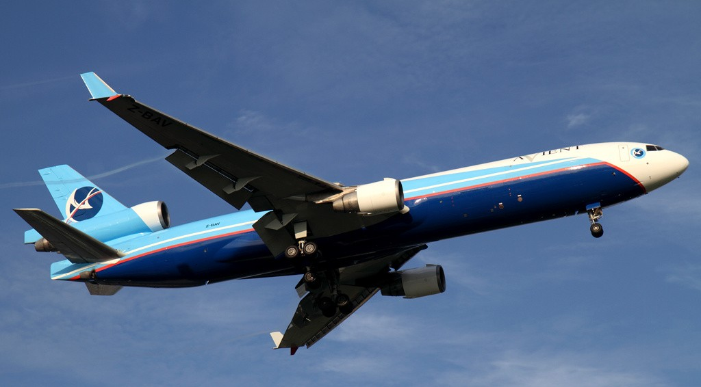 AVIENT's first MD-11F was photographed on final approach to Singapore at the end of flight SMJ381 from Hong Kong. In the glorious tropical sun, its gorgeous livery was second to none. Sadly three days later, the same aircraft crashed on take-off from Shanghai Pudong Airport enroute to Bishkek. Our deepest condolences to the loved ones of the three crew members who perished and our thoughts and prayers also for the four injured crew members, hoping that they recover completely soon.